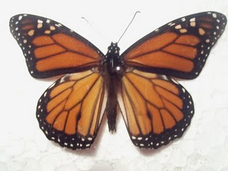 Danaus plexippus